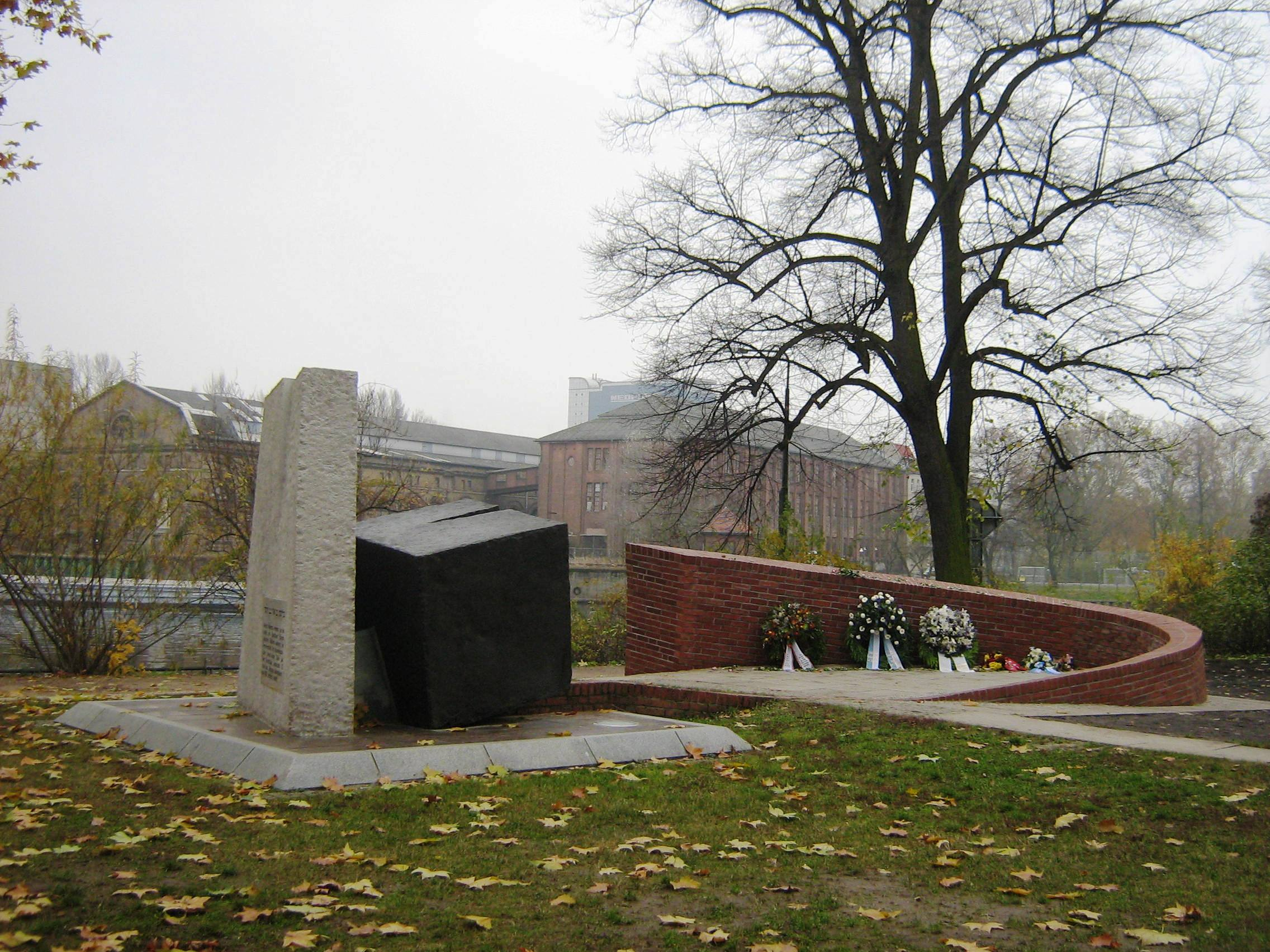 Memorial, murdered jewish people, Berlin-Spandau